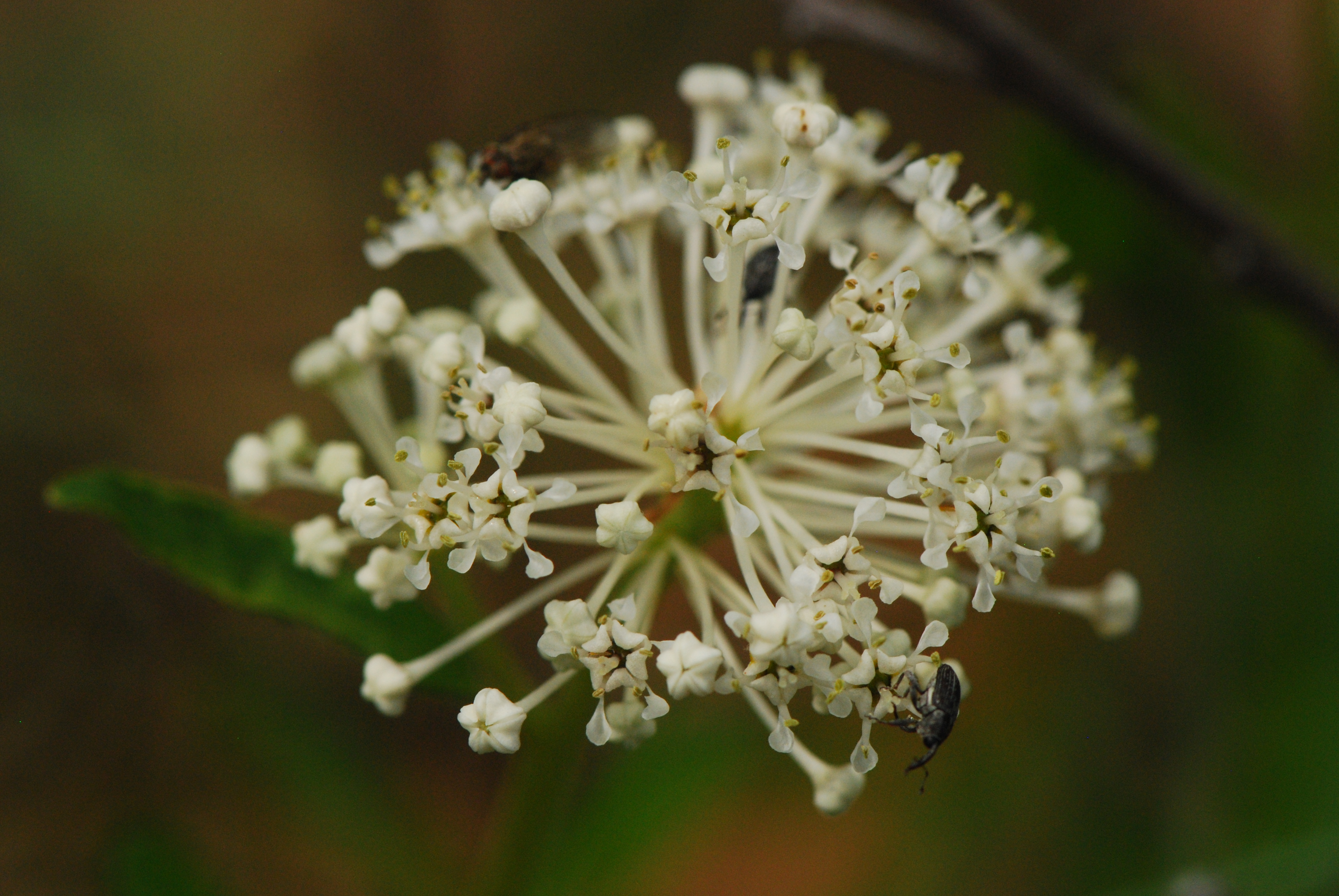 Ceanothus herbaceus - inland New Jersey tea